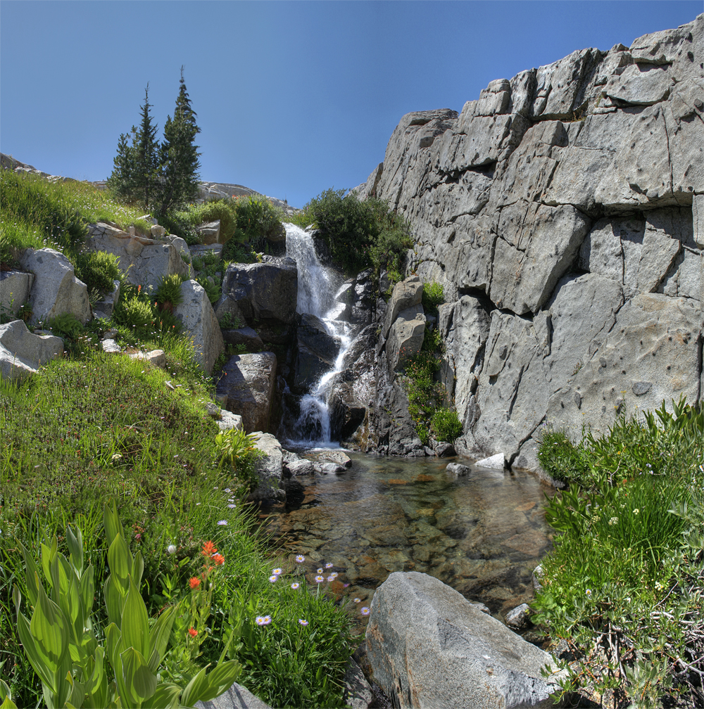 Image by Phreakdigital, Mike Grindstaff of a snowmelt drainage waterfall on the east side of Pyramid Peak...let me know if you use for any purpose.